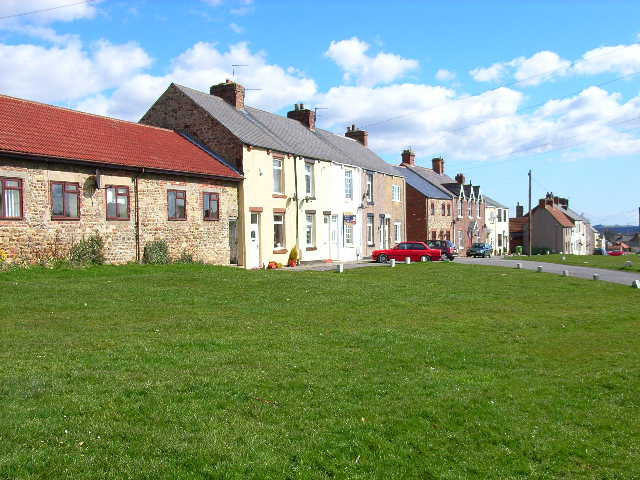 Trimdon Village Green One of a number of attractive village greens to be found throughout County Durham